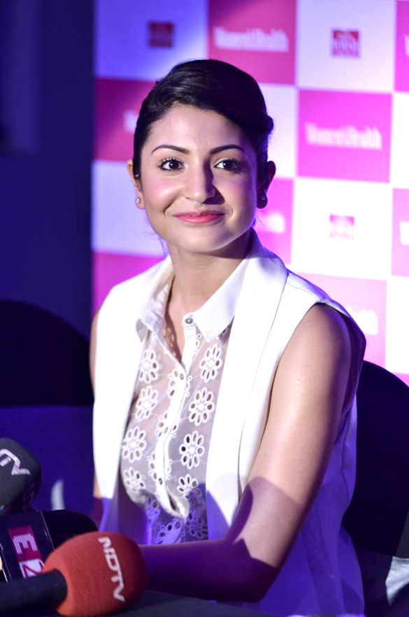 Anushka sharma womens health magazine